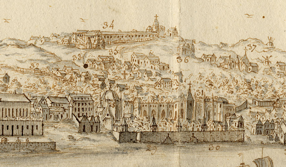 Belém and Ajuda, in Vista e perspectiva da Barra, Costa e Cidade de Lisboa by Bernardo de Caula, 1763.